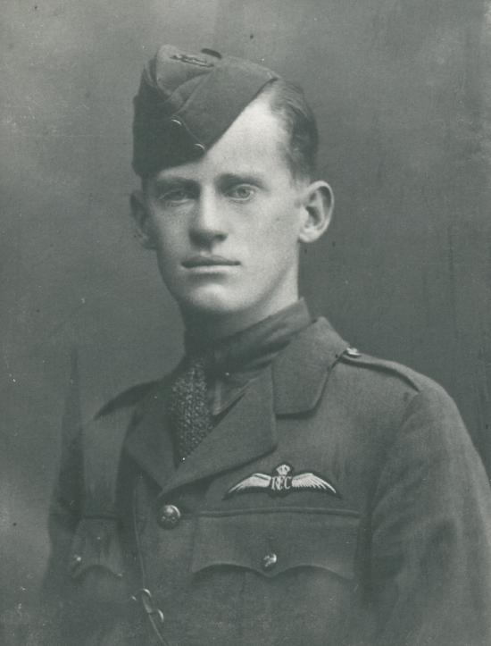 James Fairbairn, Flying Officer in the Royal Flying Corps during World War I